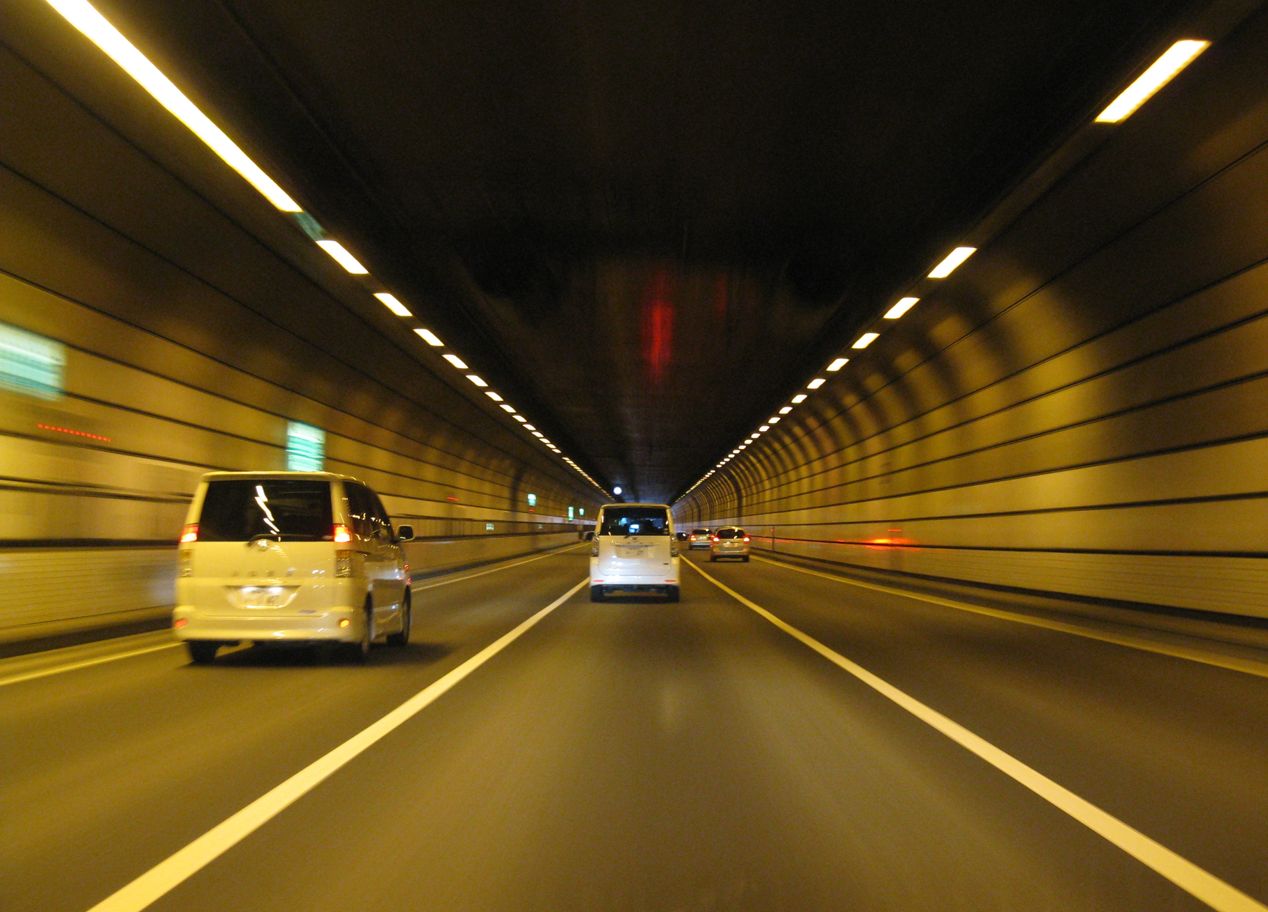 I took this photo.